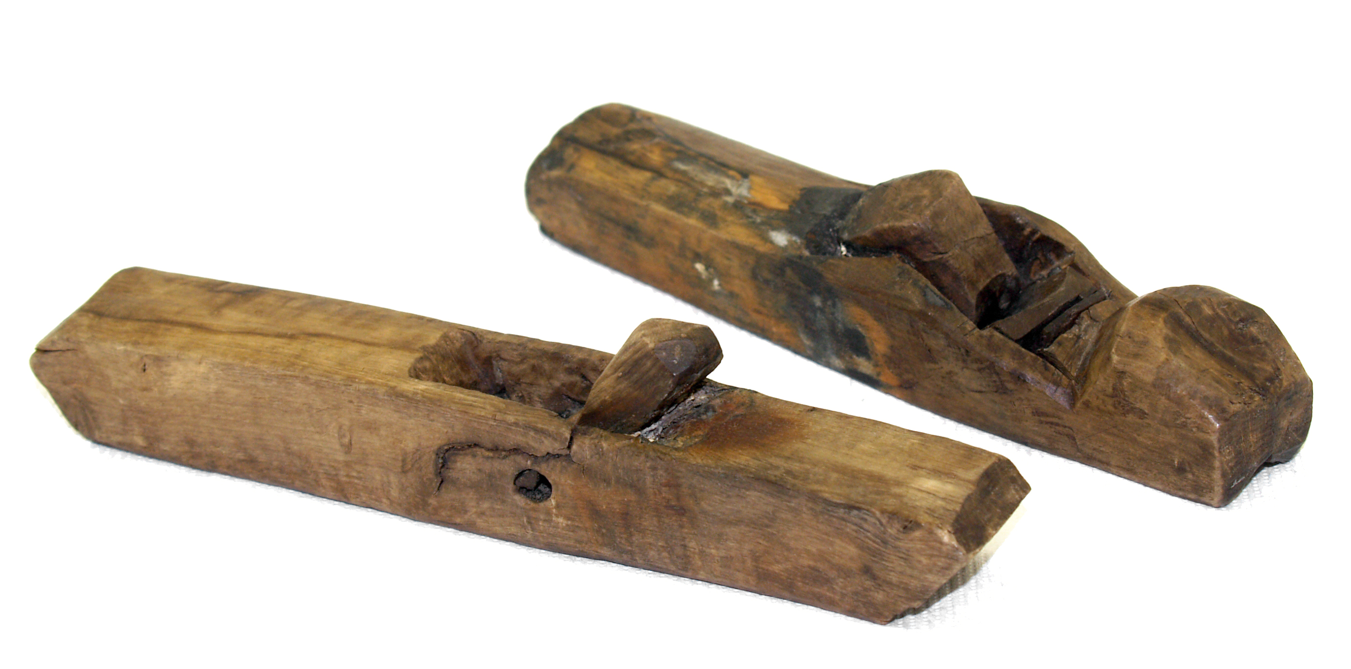 Wood-working planes found on board the carrack Mary Rose.